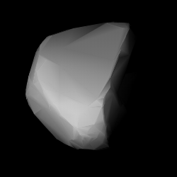 3D convex shape model of 2741 Valdivia, computed using light curve inversion techniques. J. Hanuš, J. Ďurech, M. Brož, B. D. Warner (June 2011). "A study of asteroid pole-latitude distribution based on an extended set of shape models derived by the lightcurve inversion method". Astronomy and Astrophysics 530: A134. ISSN 0004-6361. arXiv